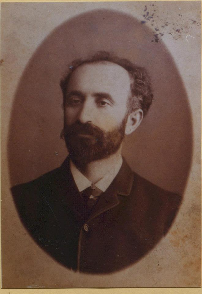 Mikael Aramyants portrait Published before 1917